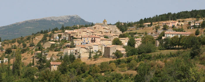 the town of Aurel in Vaucluse, France